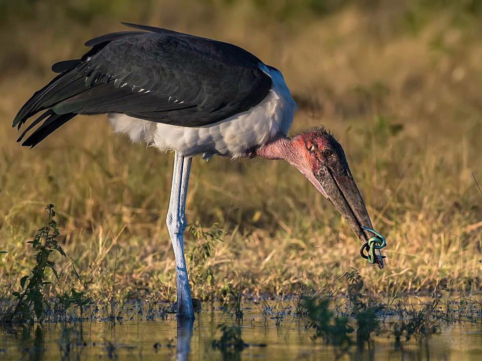 Leptoptilos crumenifer - Marabou stork with snake - Banks of Chobe River, Botswana